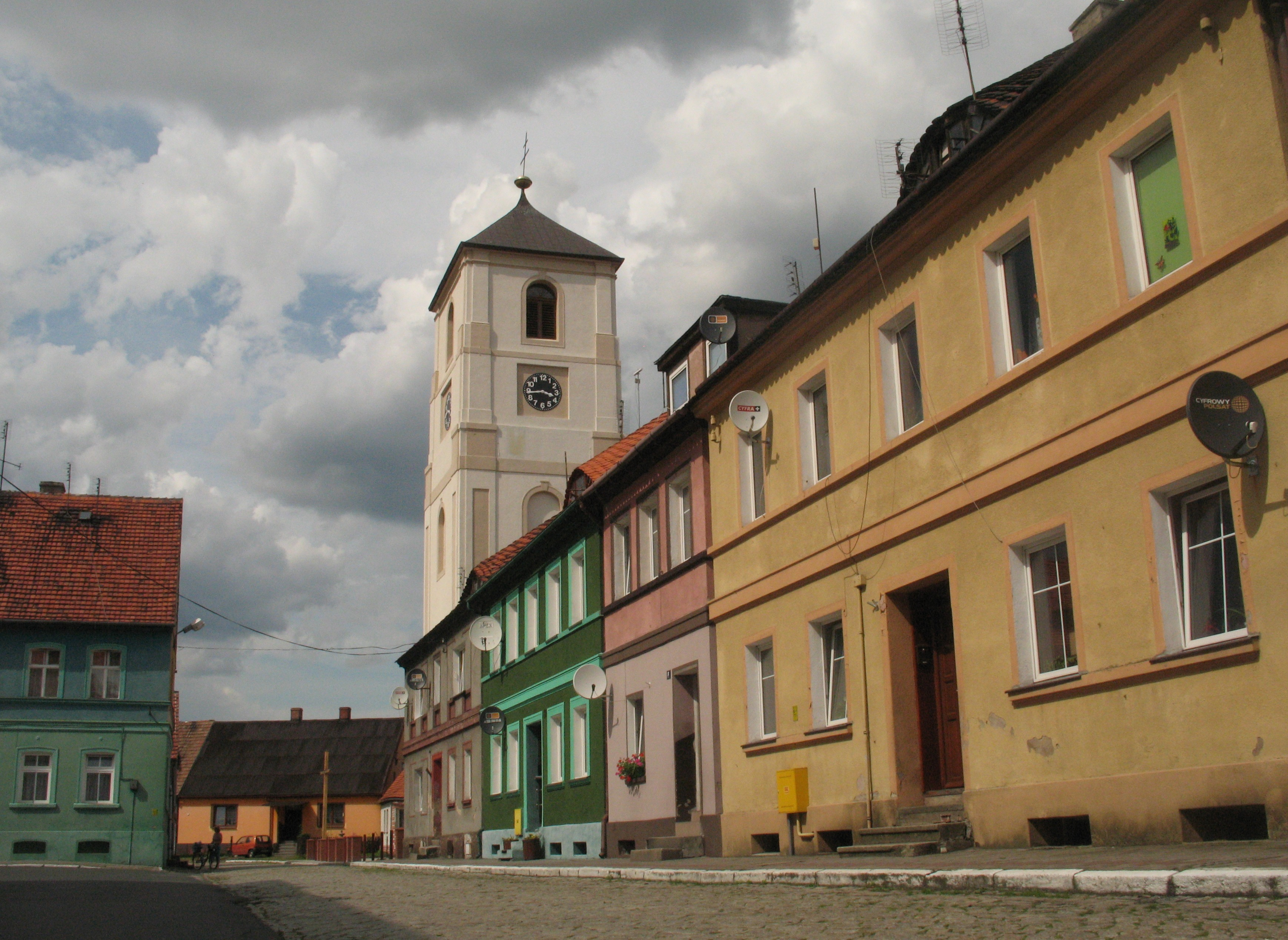 Otyń, Poland. The eastern part of the marketplace.